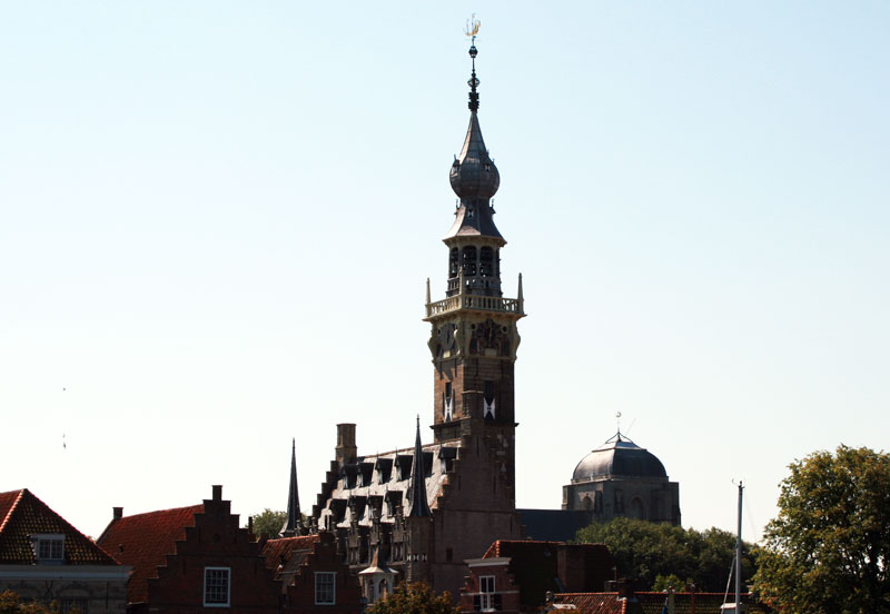 Historic city hall of the city of Veere